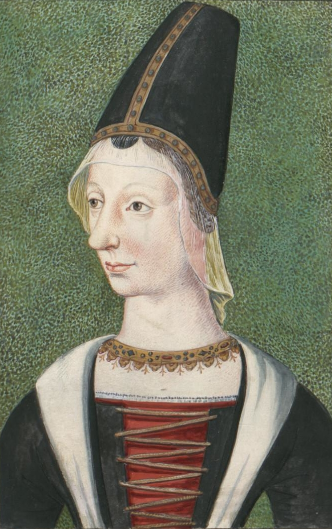 Marie of Anjou